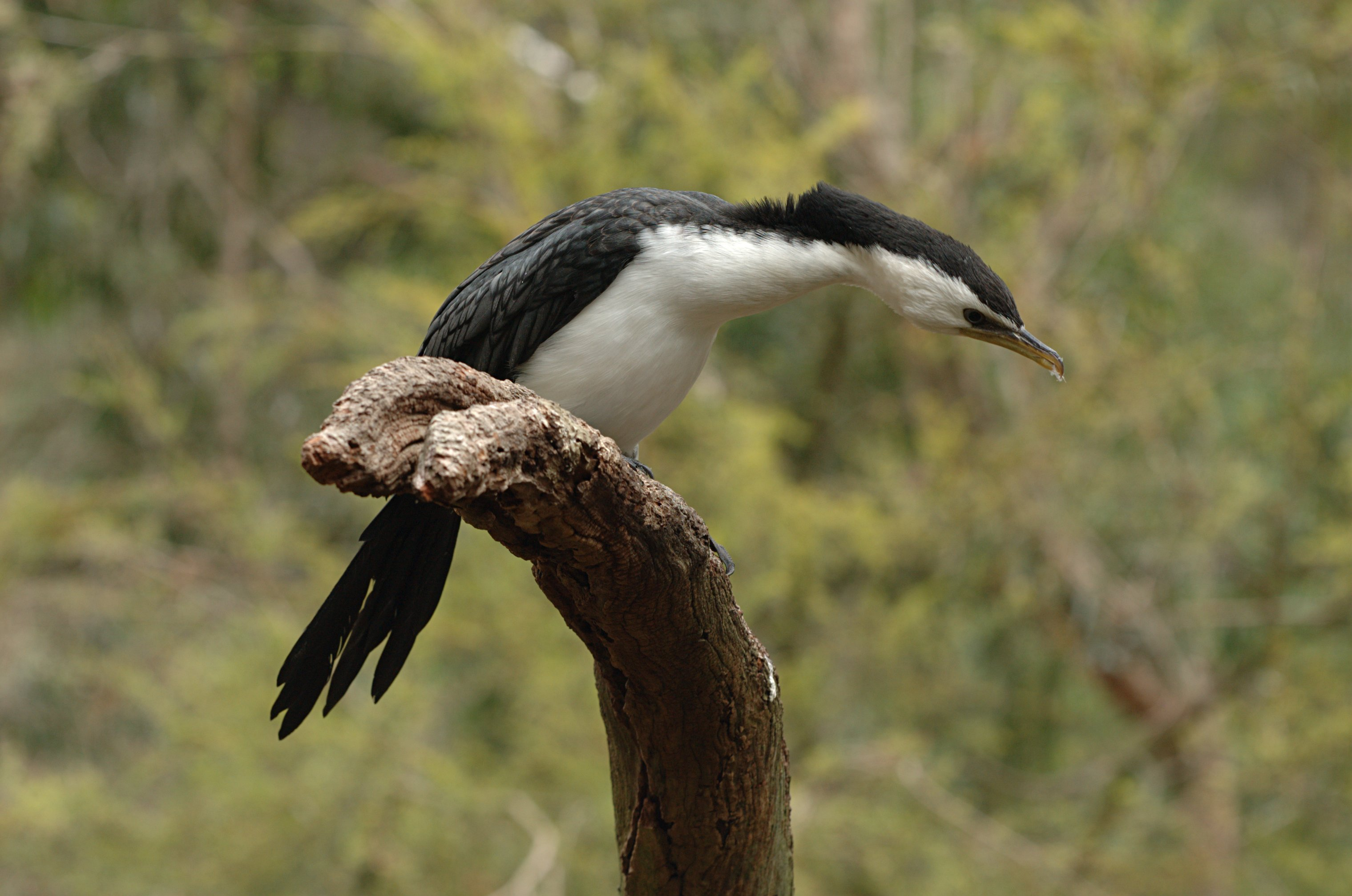 Little Pied Cormorant (Phalacrocorax melanoleucos). Melbourne Zoo, Victoria, Australia.